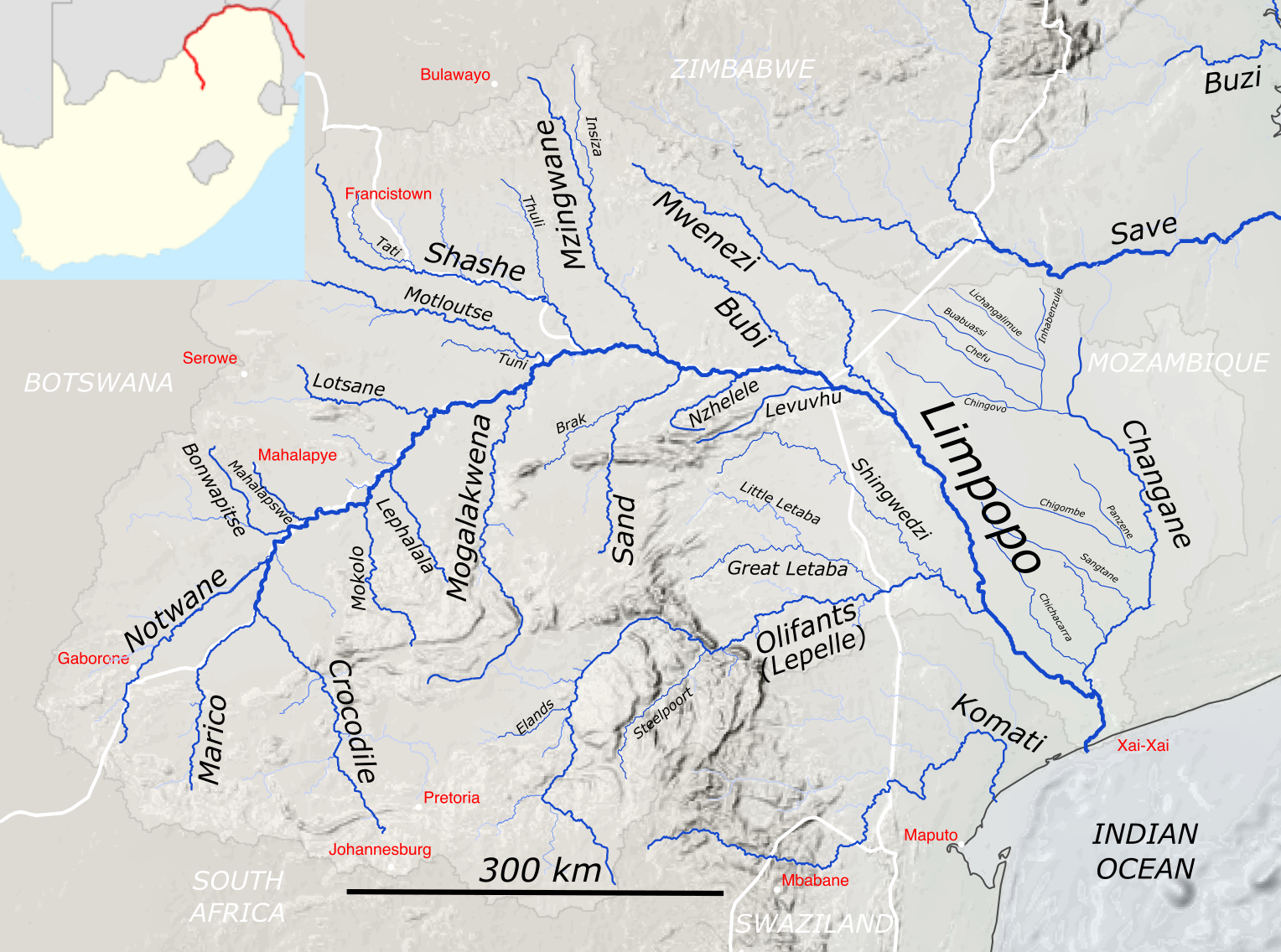 Modification of Limpopo River basin map.svg